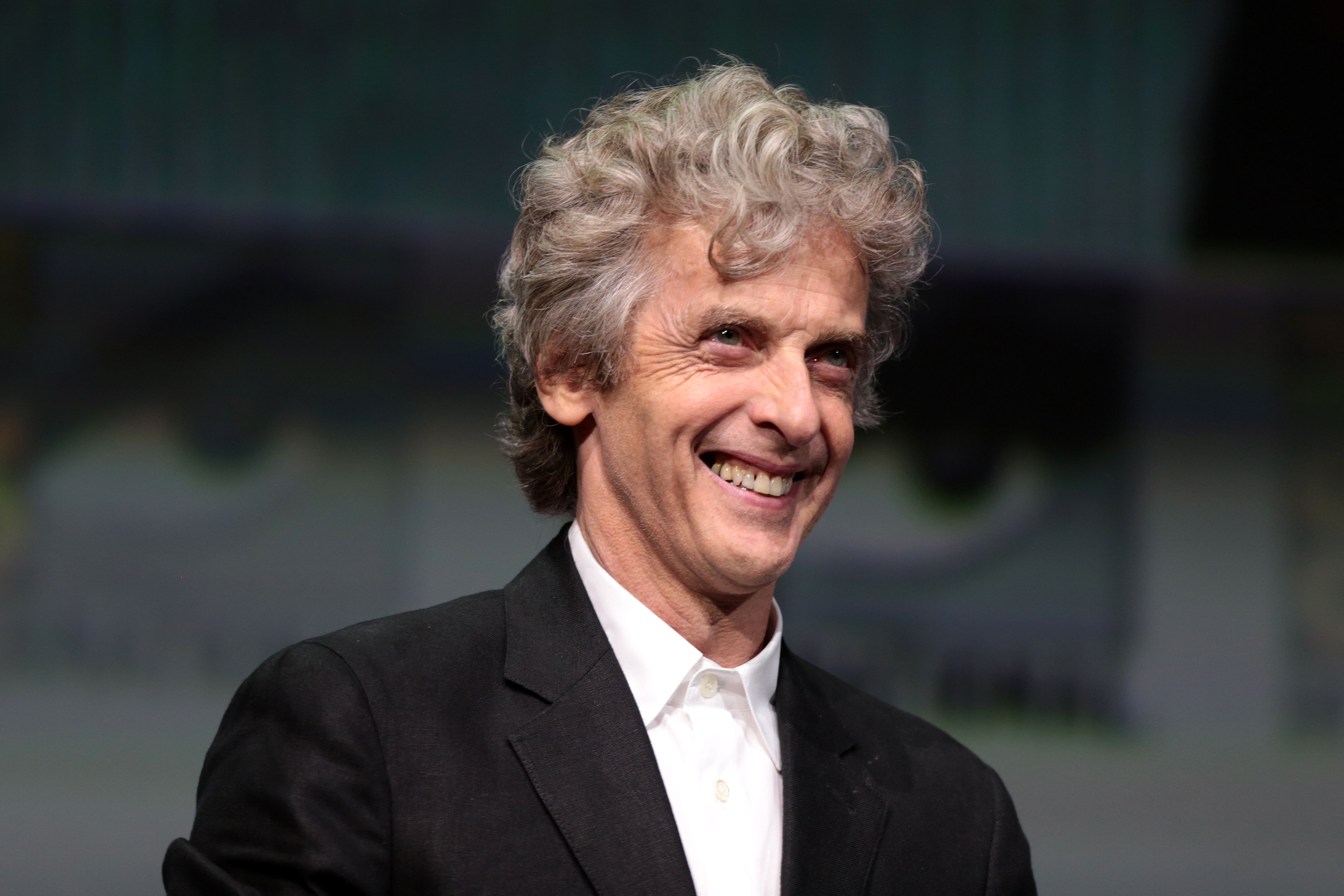 Peter Capaldi speaking at the 2017 San Diego Comic Con International, for "Doctor Who", at the San Diego Convention Center in San Diego, California.